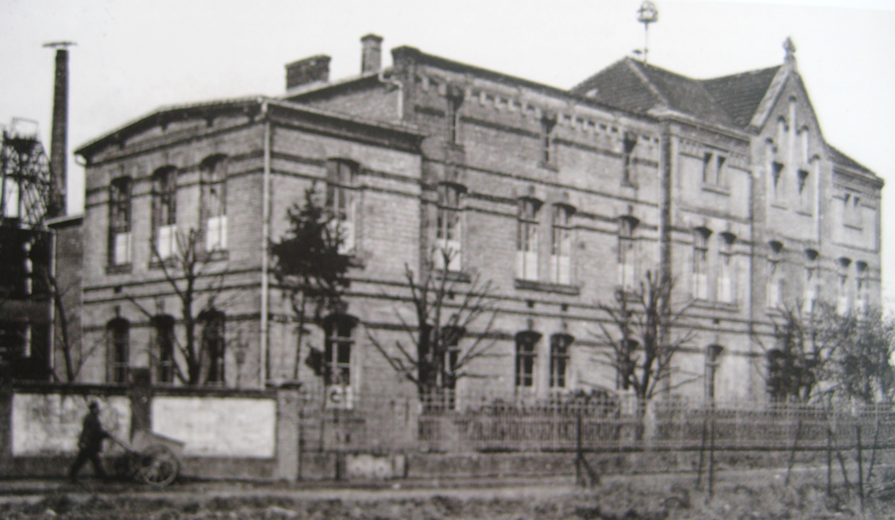 Description ancien hopital Rombas Date11 August 2011Sourcecollection personnelleAuthorUnknownPermission (Reusing this file) ancien hopital Rombas